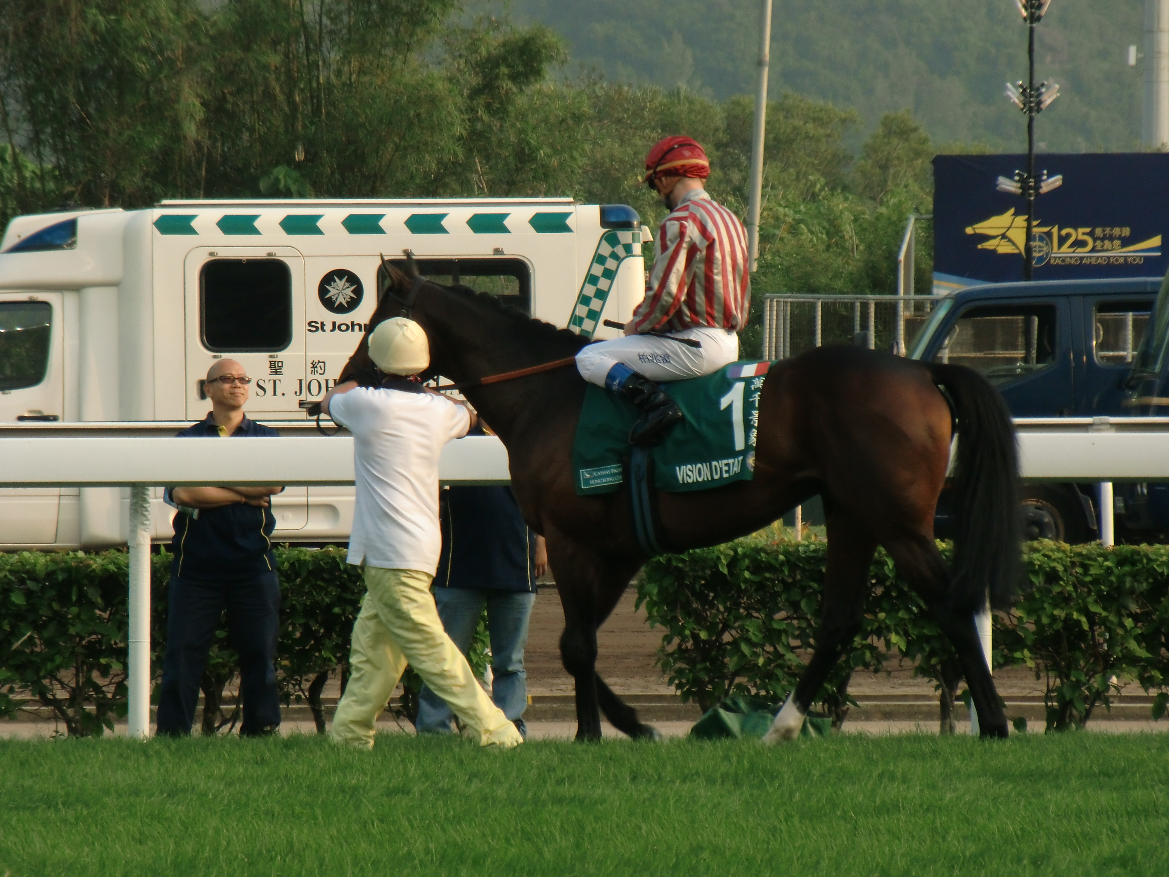 Vision d'Etat, a thoroughbred racehorse trained in France. Taken on Sha Tin Racecourse.